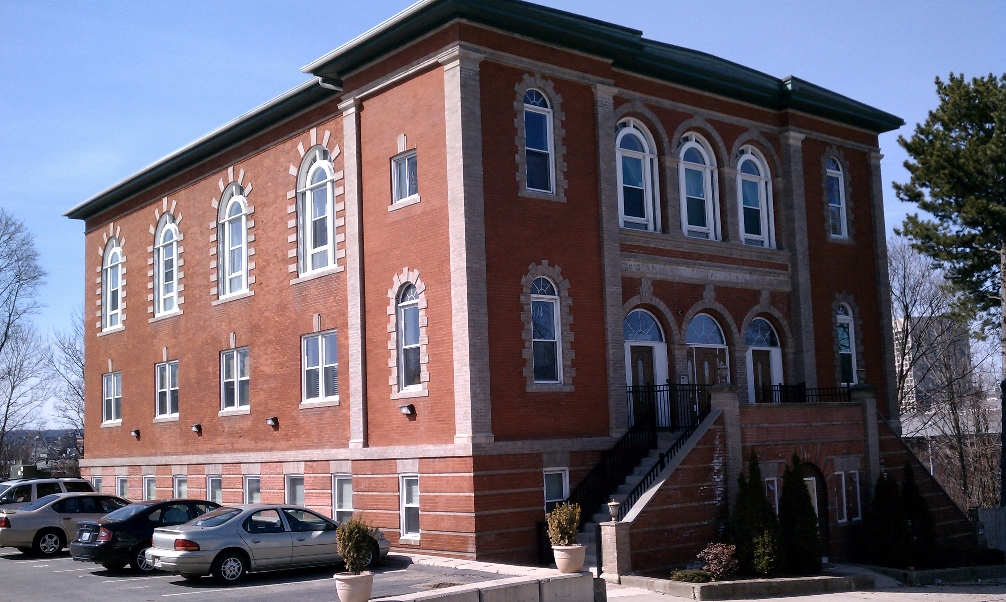 Photograph of Shaarai Torah Synagogue at 32 Providence Street in Worcester, MA.